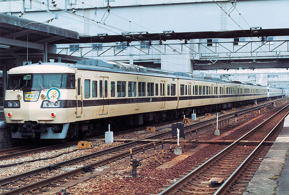 Kuha 116-103 electric car of JNR 117 series EMU